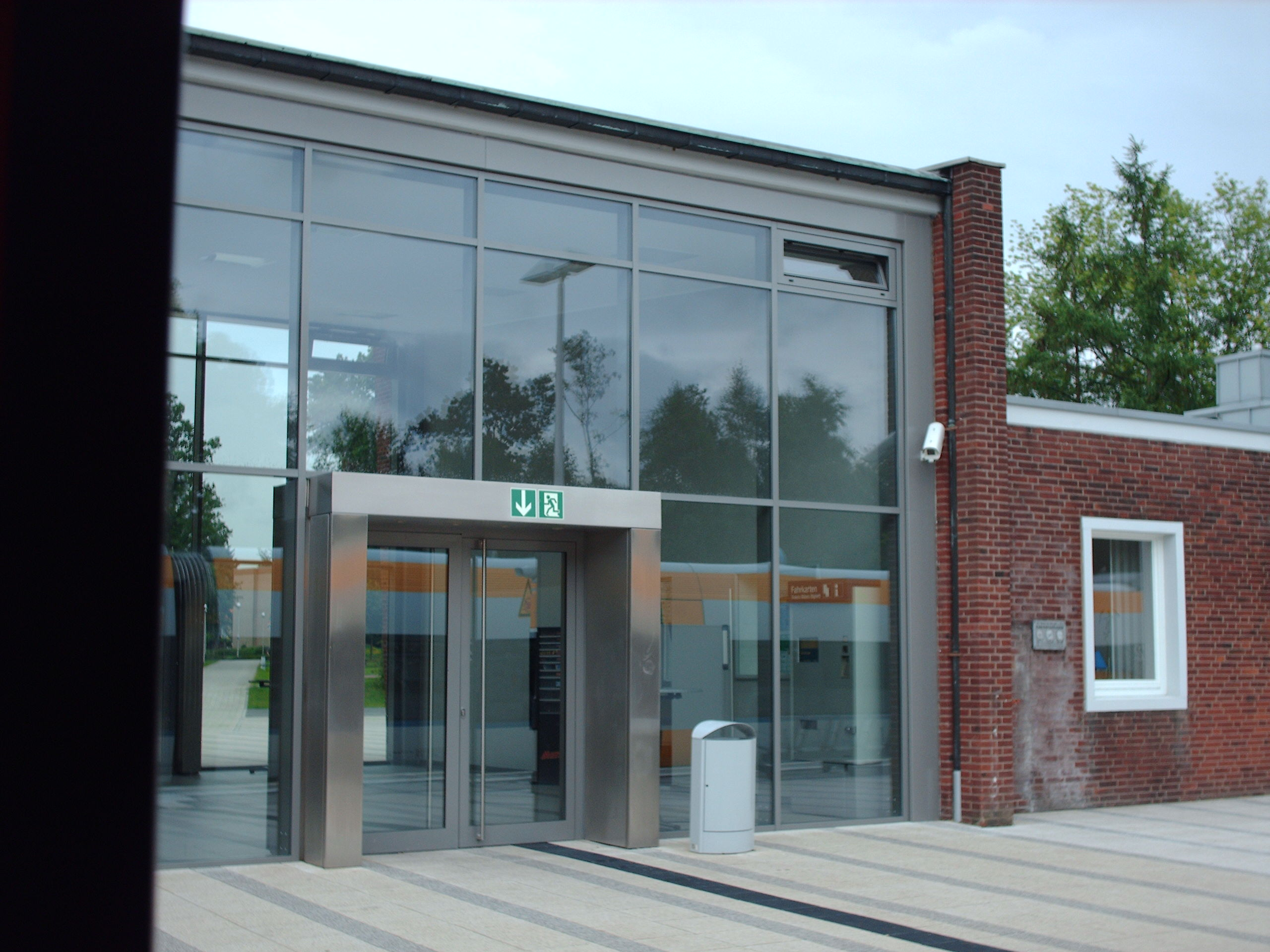 Espelkamp station, Espelkamp, Germany check usage